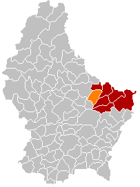 Own edit of Kanton EchternachLocatie.png